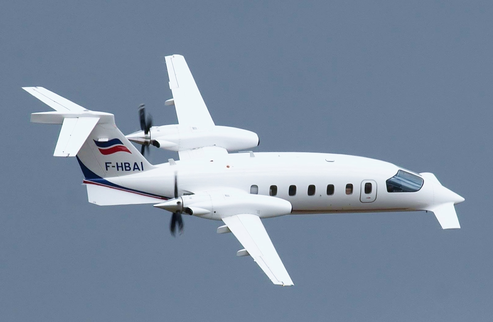 Piaggio P-180 Avanti in in-flight demonstration at Rennes AirShow 2010